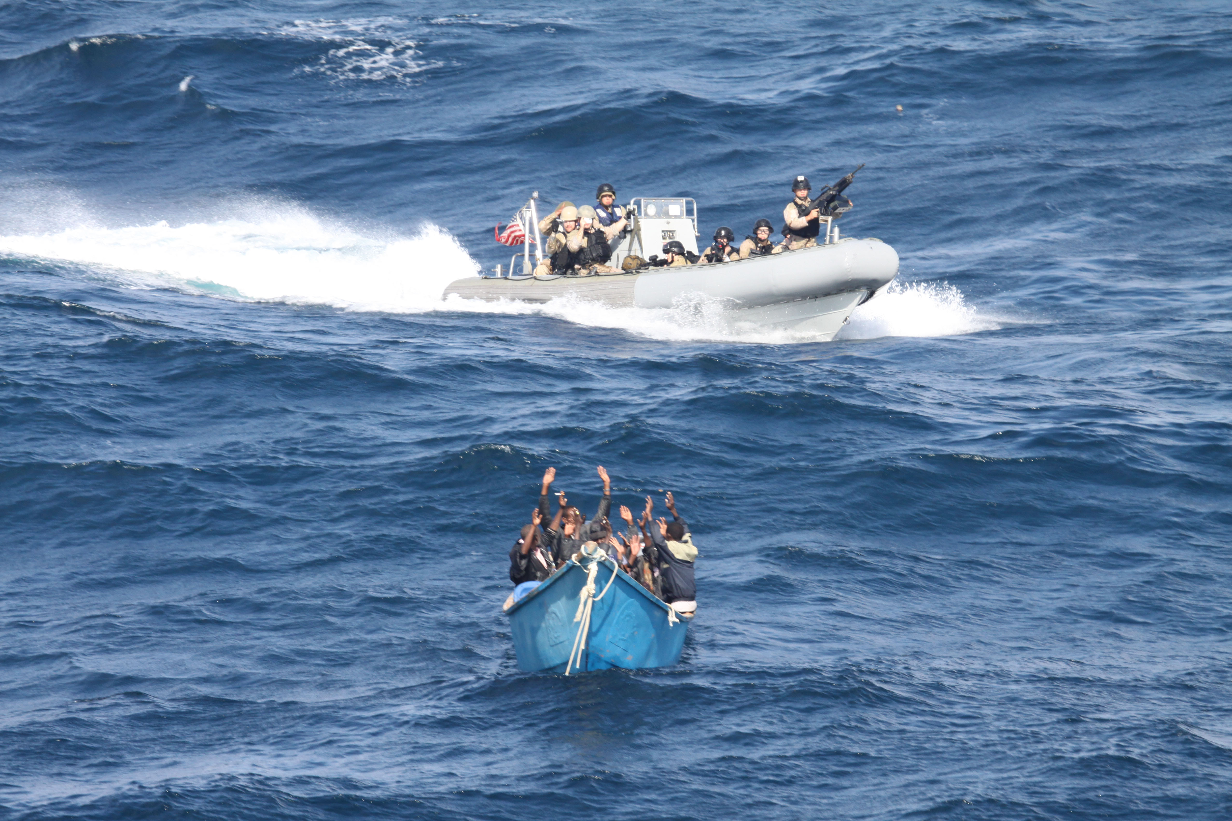 GULF OF ADEN (Dec. 19, 2011) A visit, board, search and seizure team from the guided-missile destroyer USS Pinckney (DDG 91) approaches a suspected pirate vessel after the Motor Vessel Nordic Apollo reported being under attack and fired upon by Somali pirates. Pinckney is assigned to Combined Task Force 151, a multinational, mission-based task force working under Combined Maritime Forces to conduct counter-piracy operations in the Southern Red Sea, Gulf of Aden, Somali Basin, Arabian Sea, and Indian Ocean. (U.S. Navy photo/Released)